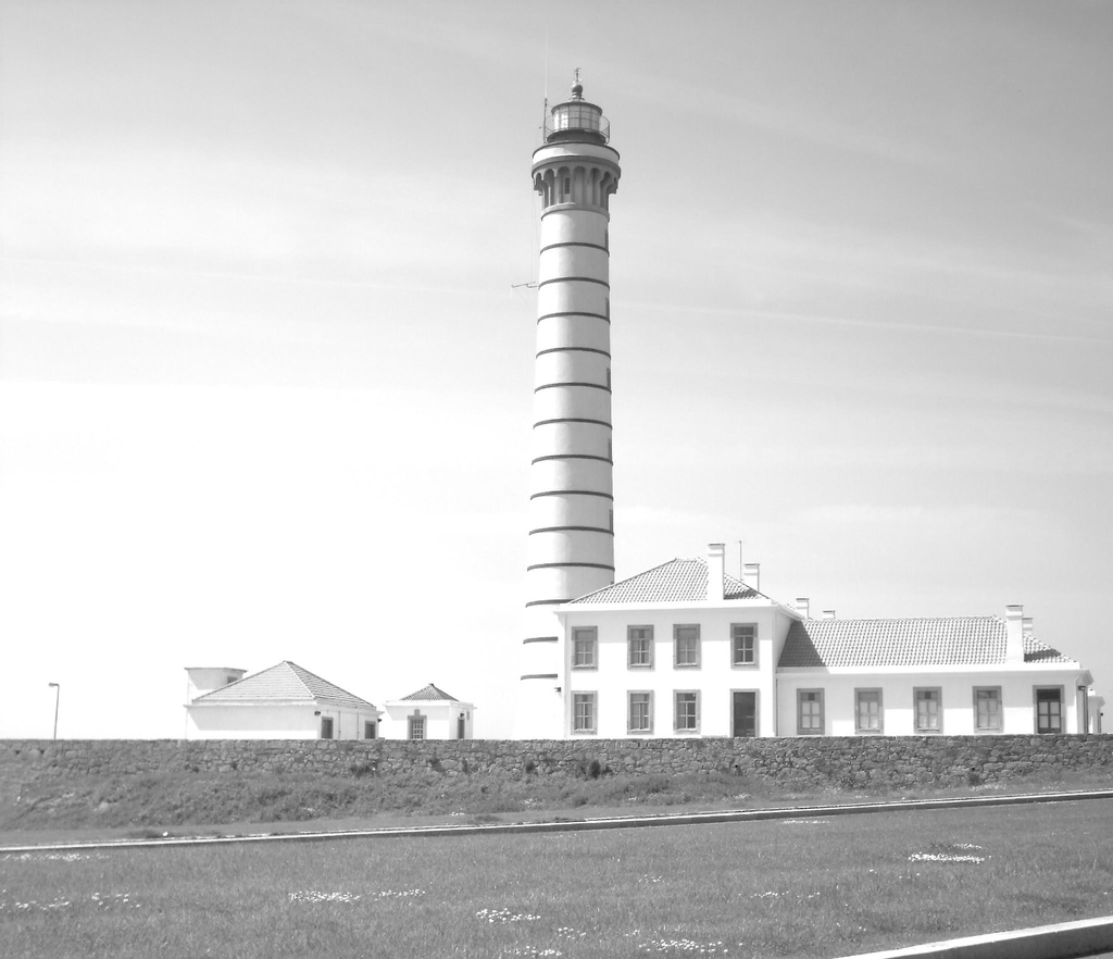 One of the most attractive active monuments in Leça da Palmeira